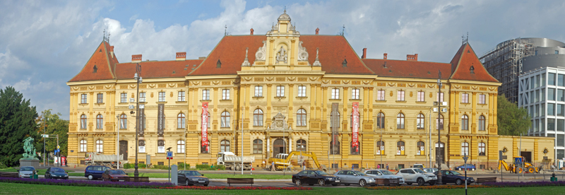 Museum of Arts and Crafts, Marshal Tito Square, Zagreb, Croatia